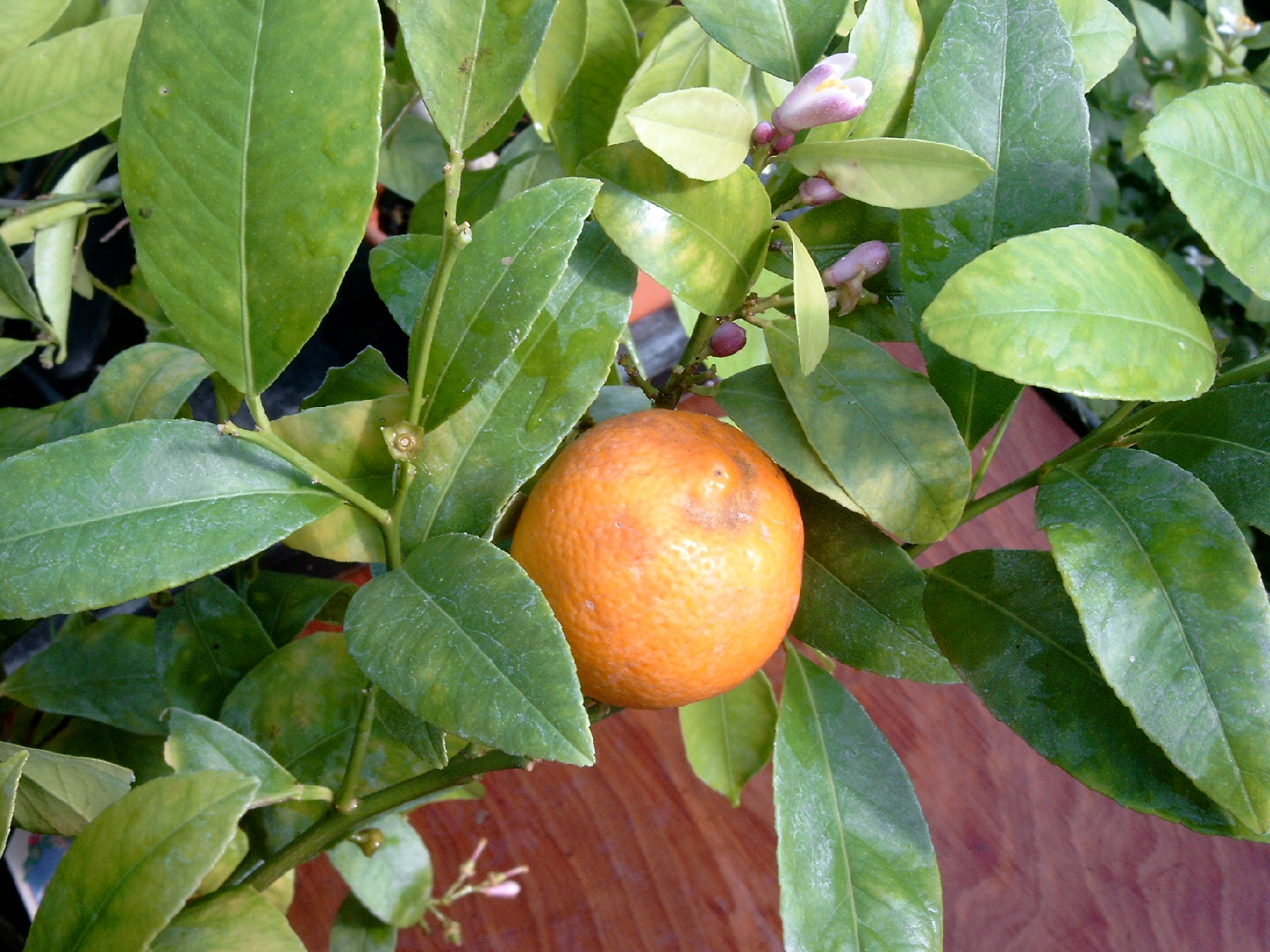 Citrus x limonia, the Rangpur Lime.